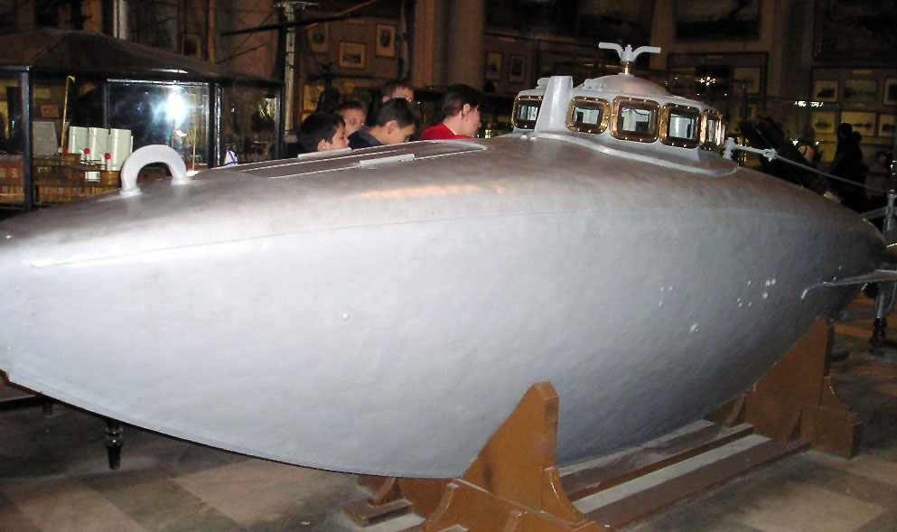 First russian serial submarine (50 ships were built). It was built in 1881. The exhibit of Navy Museum in Saint-Petersburg, Russia.